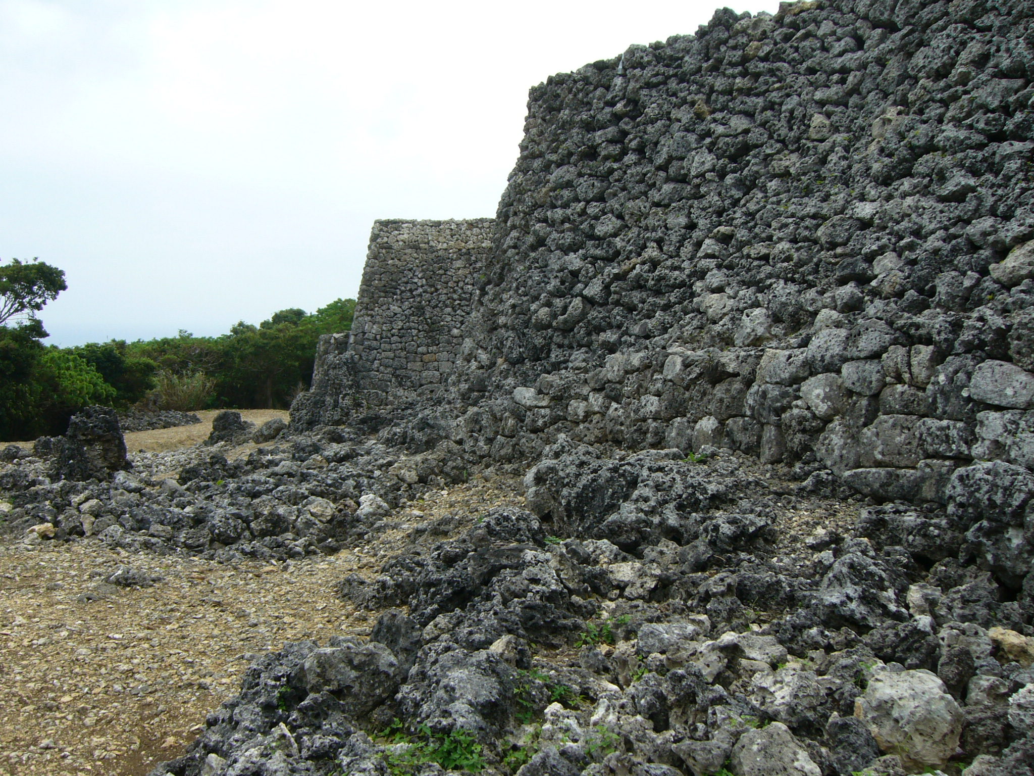 Itokazu Castle ruins, Nanjō, Okinawa Prefecture, Japan